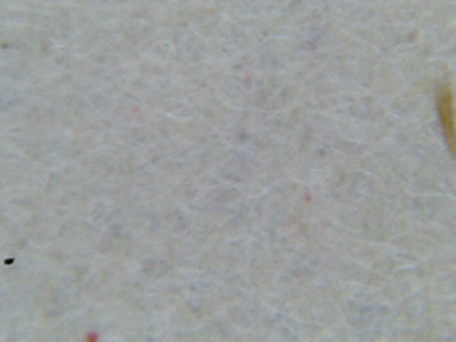 Magnified wove paper of the US 1890-93 2c stamp.